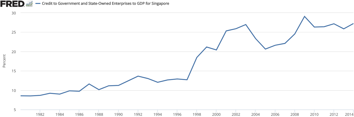 Singapores State Owned Enterprises and a percent of GDP